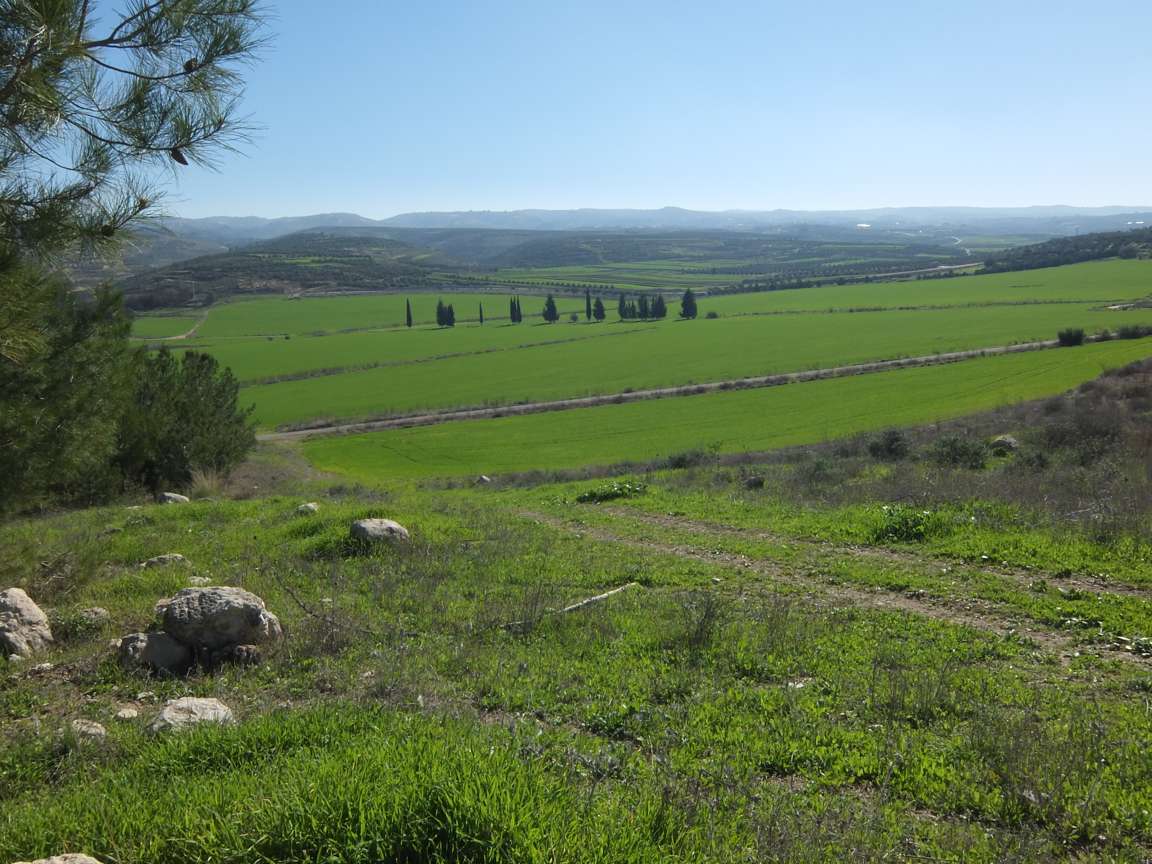 Valley of Elah, taken by me on 25 December 2014, from the valley's south-eastern side, near the ruin of Adullam.